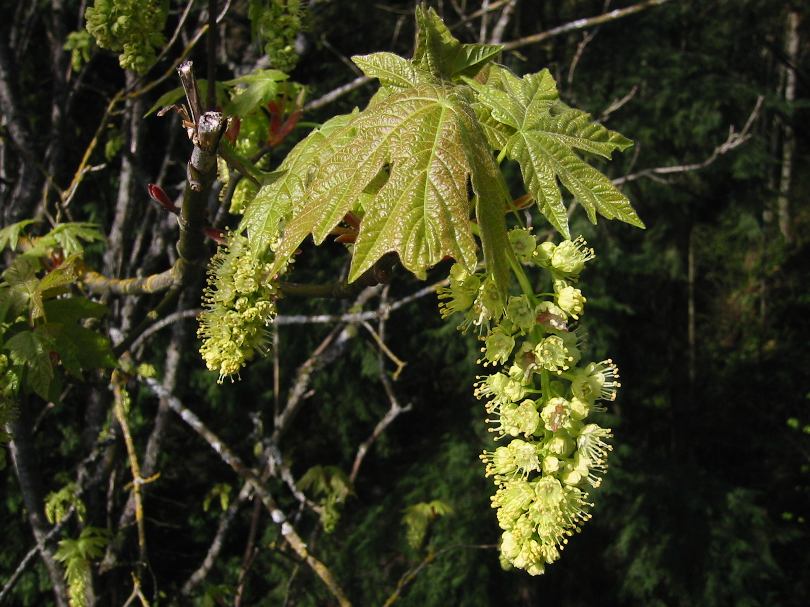 Bigleaf Maple flowers and foliage